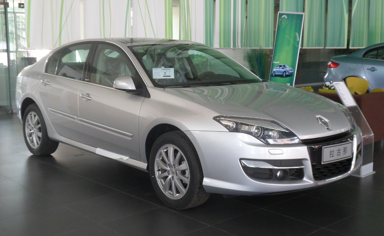 Renault Laguna III facelift photographed in Shanghai, China.